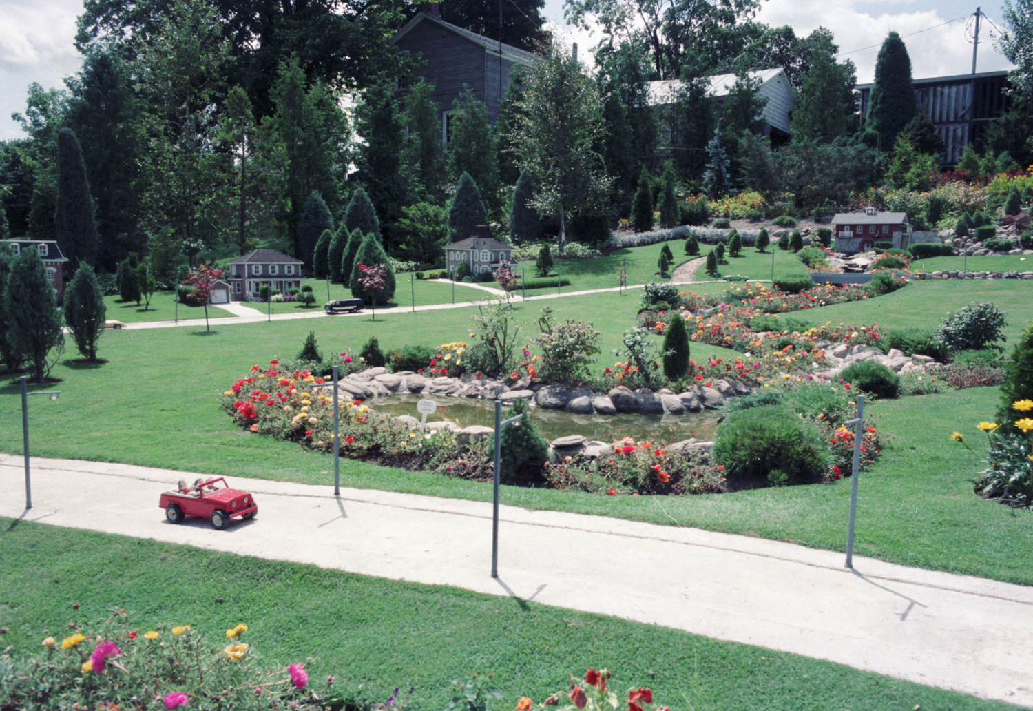 Cullen Garden and Minature Village, Whitby,ON